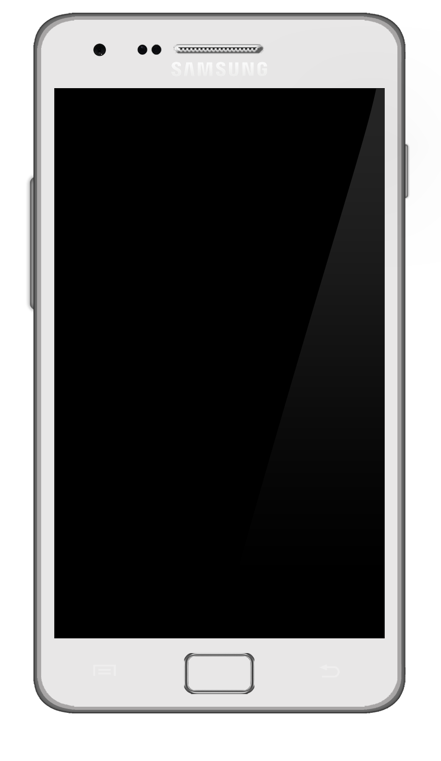 Samsung Galaxy S II render created by GadgetsGuy and used with permission. Original PSD available at